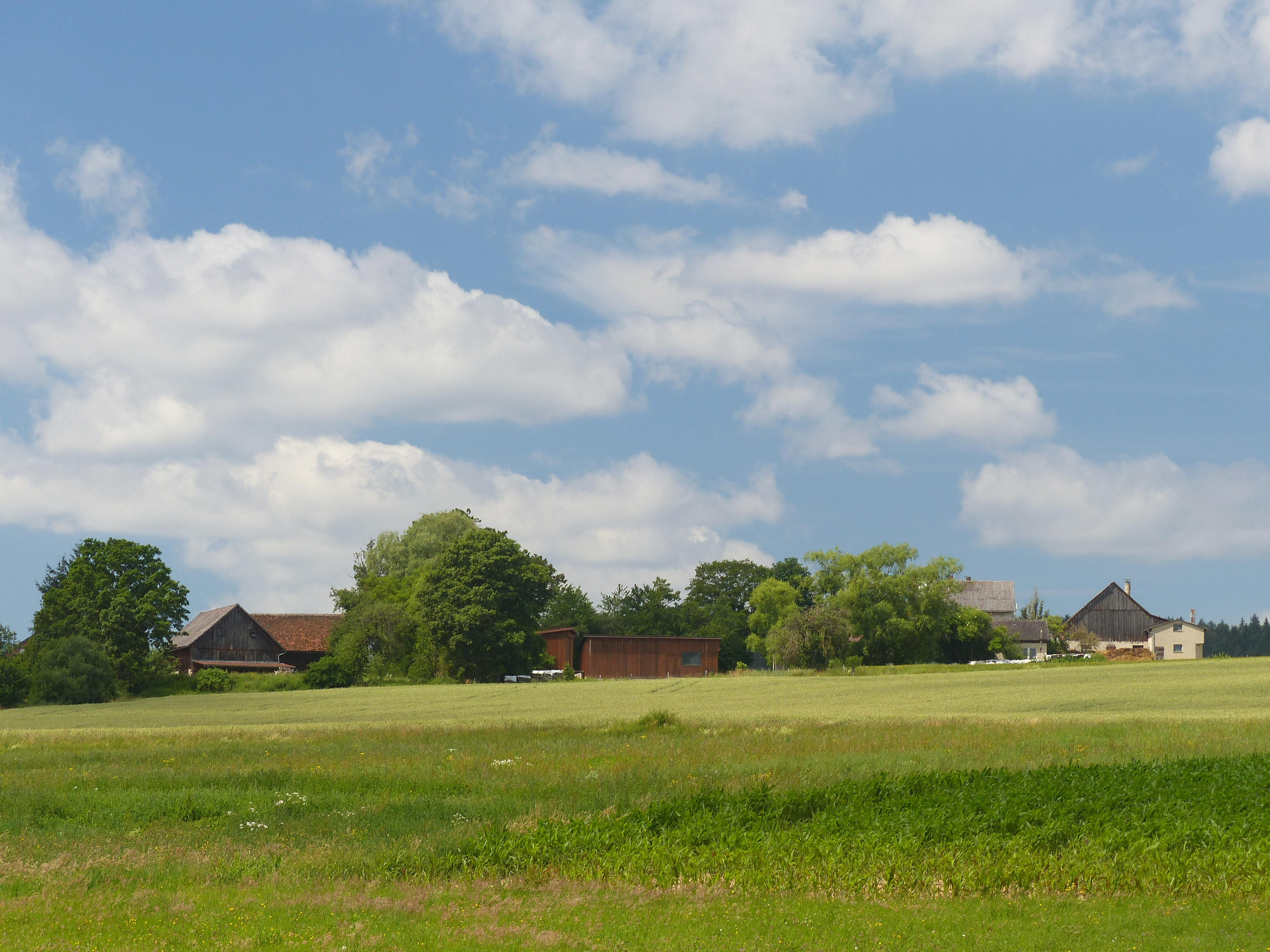 The solitude Windmühle, a district of the municipality of Ahorntal.